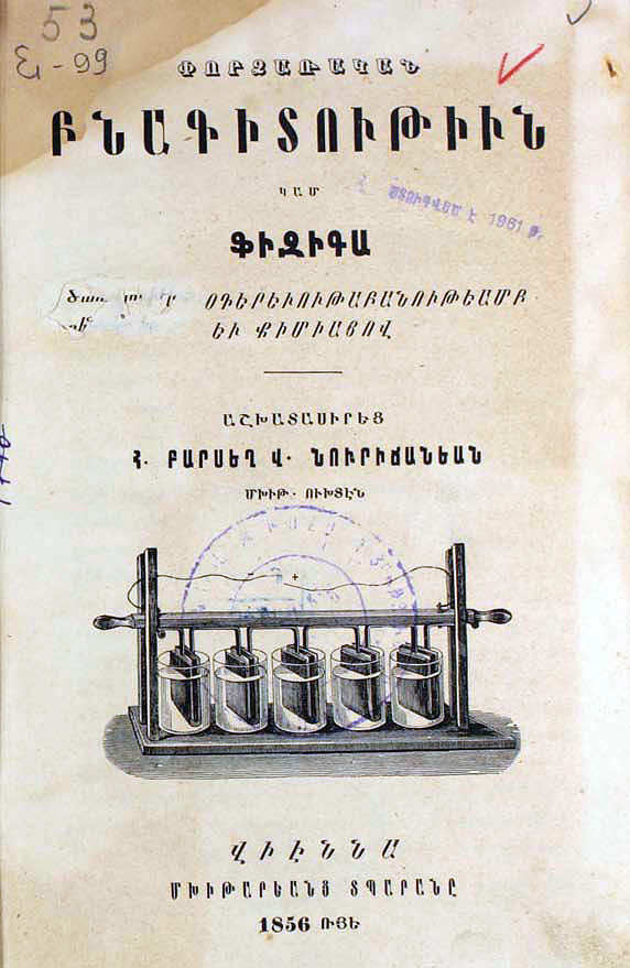 Experimental Science of Nature or Physics; H. Barsegh V. Nouridjanian. Mekhitarist printing house, Vienna, 1856, 547 pages, 520 images